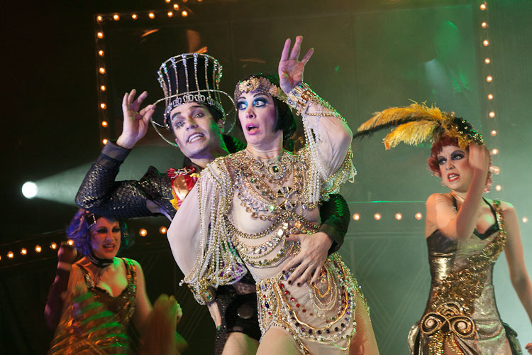 SÃO PAULO, SP, BRASIL, 21-10-2011, 22h00: Cena do musical Cabaret com texto de Miguel Falabella e direção de José Possi Neto no teatro Procopio Ferreira. Para Ilustrada, Folha de SP. © Folhapress 2011 - Todos os direitos reservados à Folha.